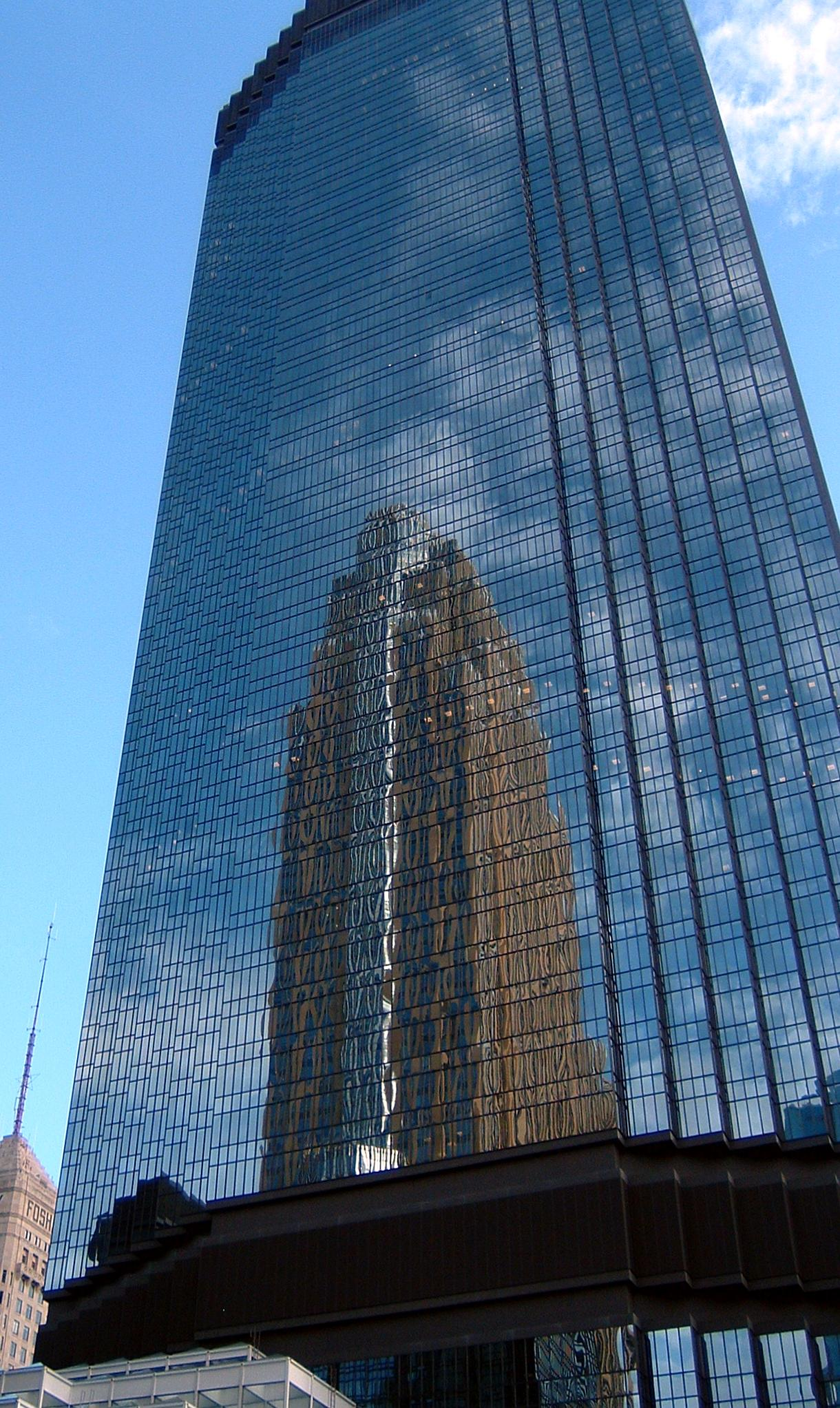 IDS Center in Minneapolis, Minnesota reflecting the nearby Wells Fargo Center